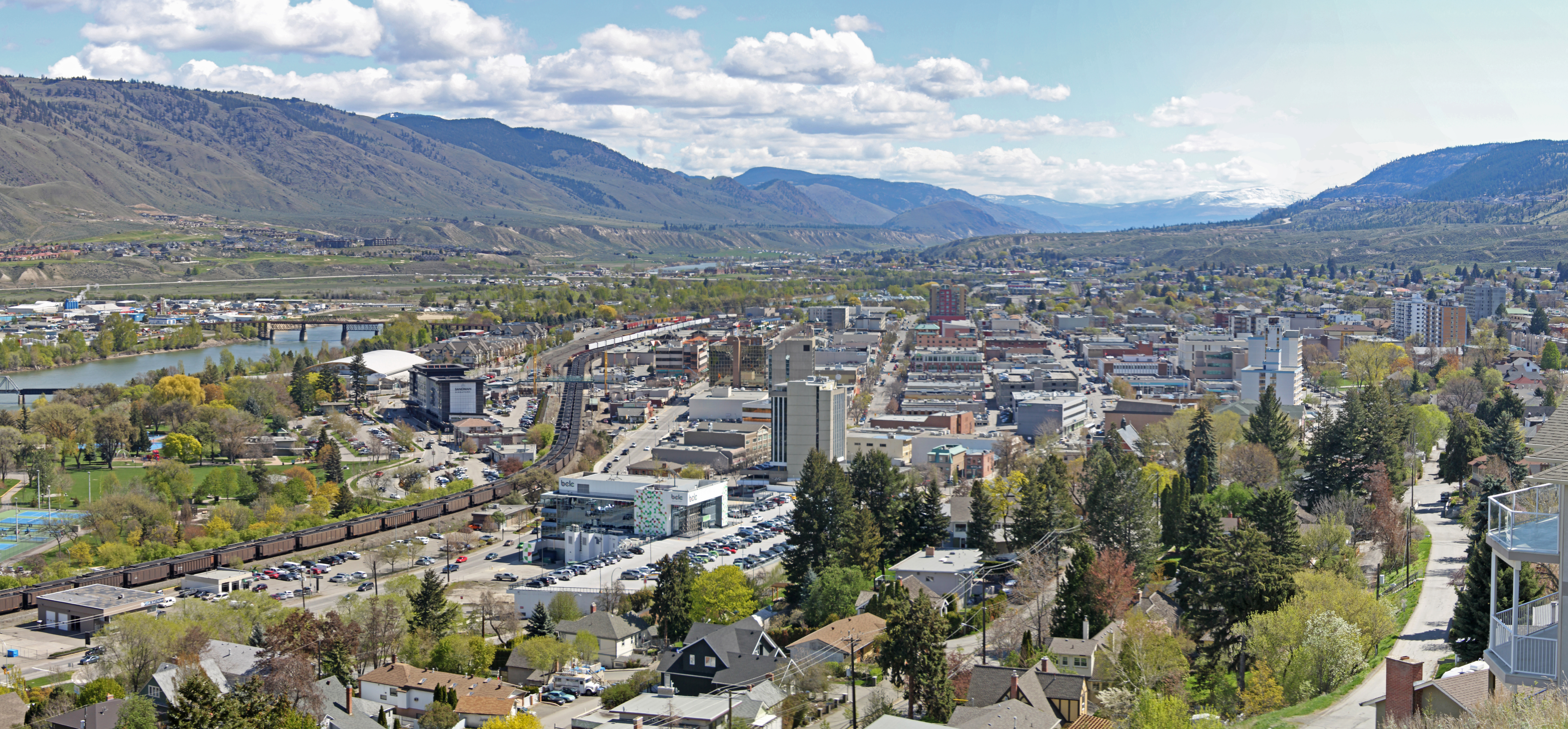 Downtown Kamloops skyline